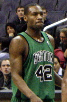 Tony Allen (basketball) of the Boston Celtics